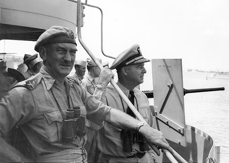 British Gen. J. L. Hawksworth and RADM Richard L. Conolly, USN, aboard USS Biscayne (AVP-11) on 6 September 1943, three days before the Salerno landings.